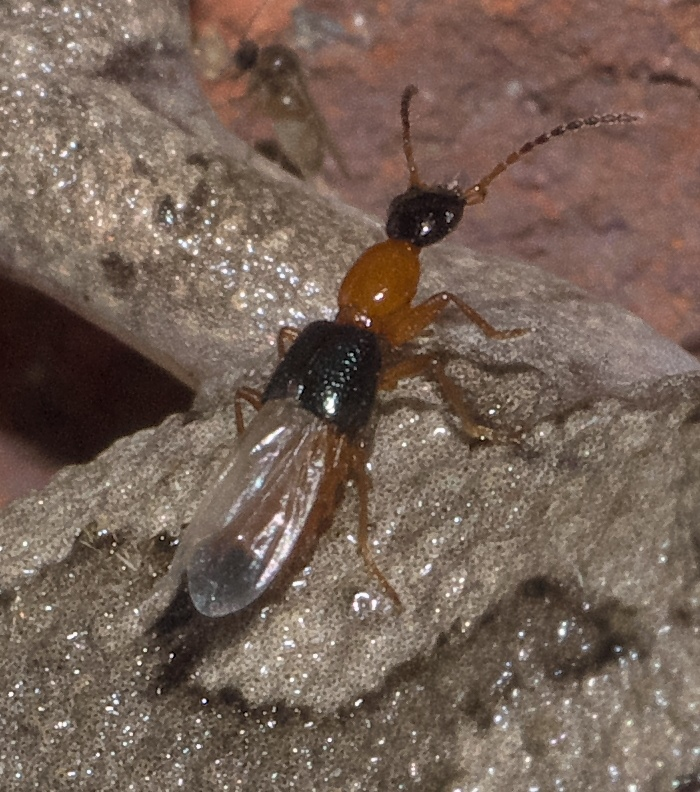 Neobisnius, Subfamily: Large Rove Beetles